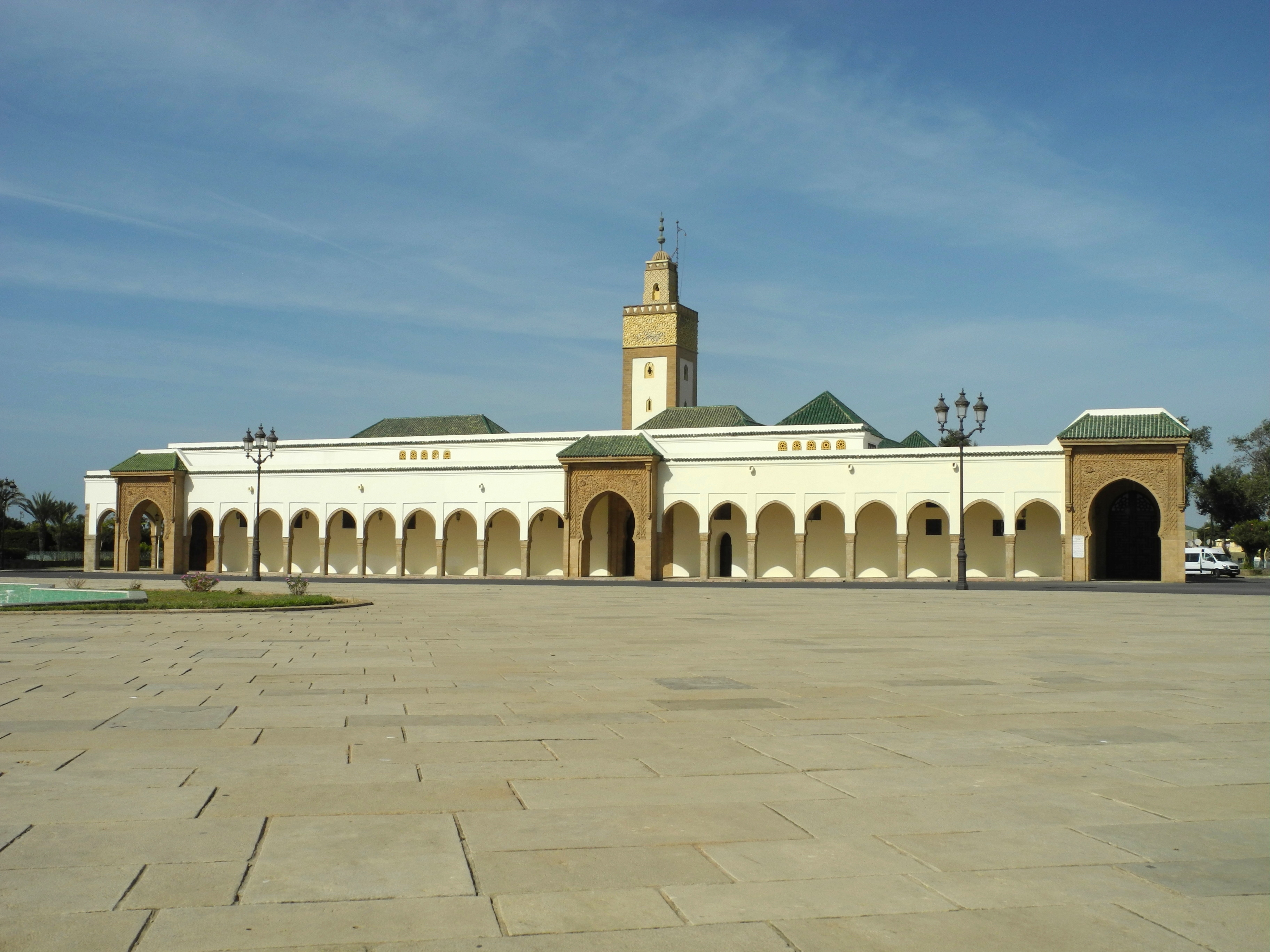 Ahl Fas Mosque, Rabat, Morocco